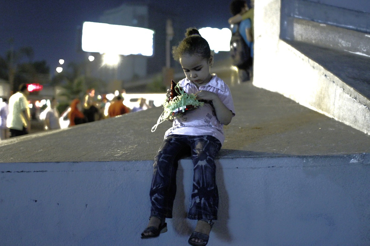 Original description: "A young girl at the rally in Cairo. (Hamada Elrasam for VOA)"